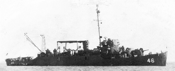 The U.S. Navy high speed transport USS Amesbury (APD-46) at anchor in 1945.